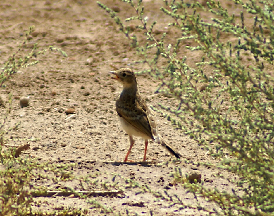 Tawny pipit (Anthus campestris) Pyrenean birdwatching June 2007